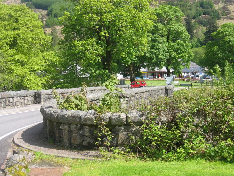 Strontian – bridge, center